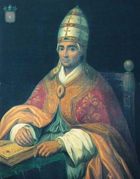 Portrait of pope Benedit XII